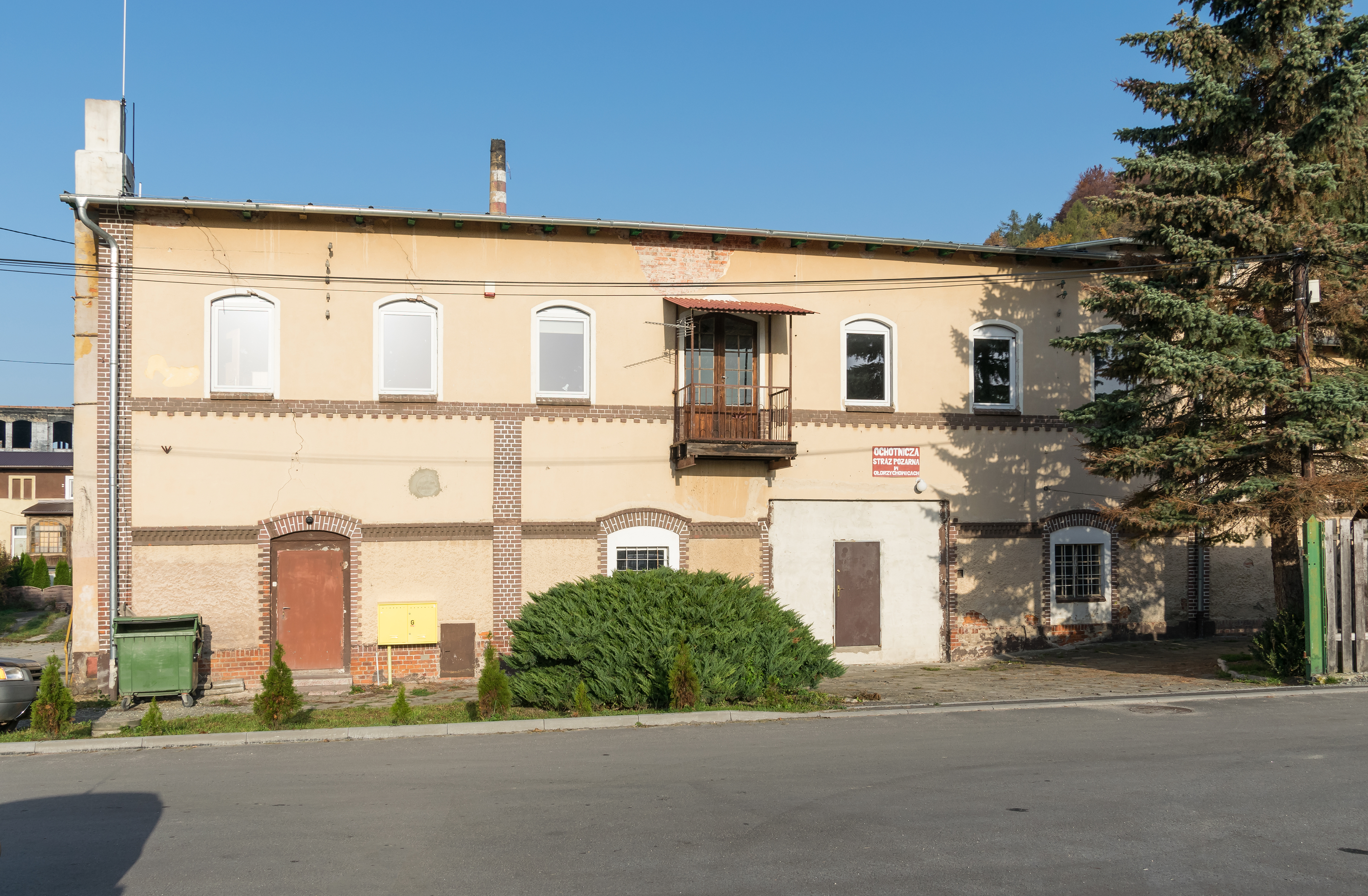 Fire station in Ołdrzychowice Kłodzkie